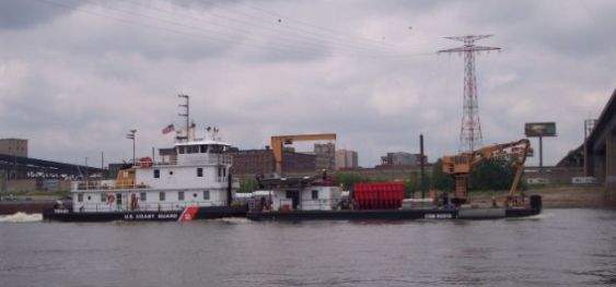 The USCGC Gasconade (WLR-75401), a 75-foot river tender commissioned in 1964, was stationed in St. Louis for six months after she first entered service. She then shifted homeport to Florence, Nebraska, for two months before transferring to her permanent station in Omaha. Note her construction barge.